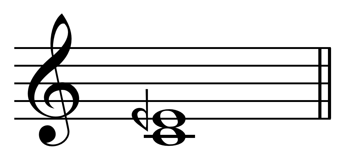 Neutral third on C = E. Equal-tempered: 27/24:1 = 350 cents.